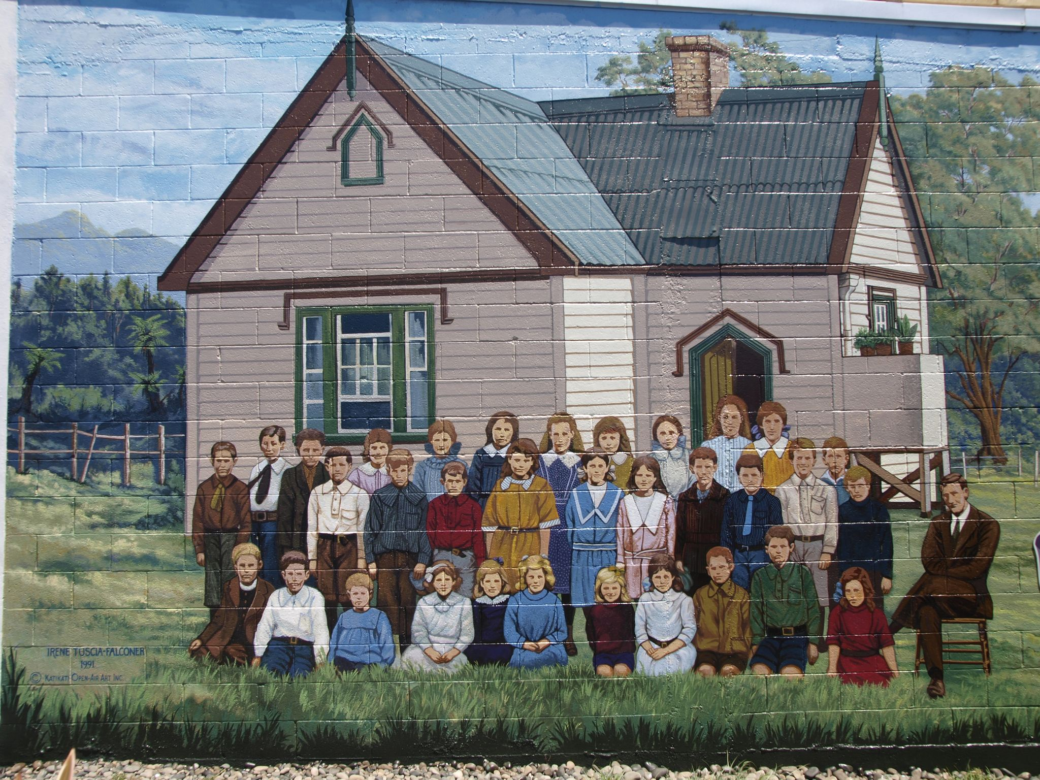 Wall Painting on Main Road at Katikati, Western Bay of Plenty District, North Island, New Zealand